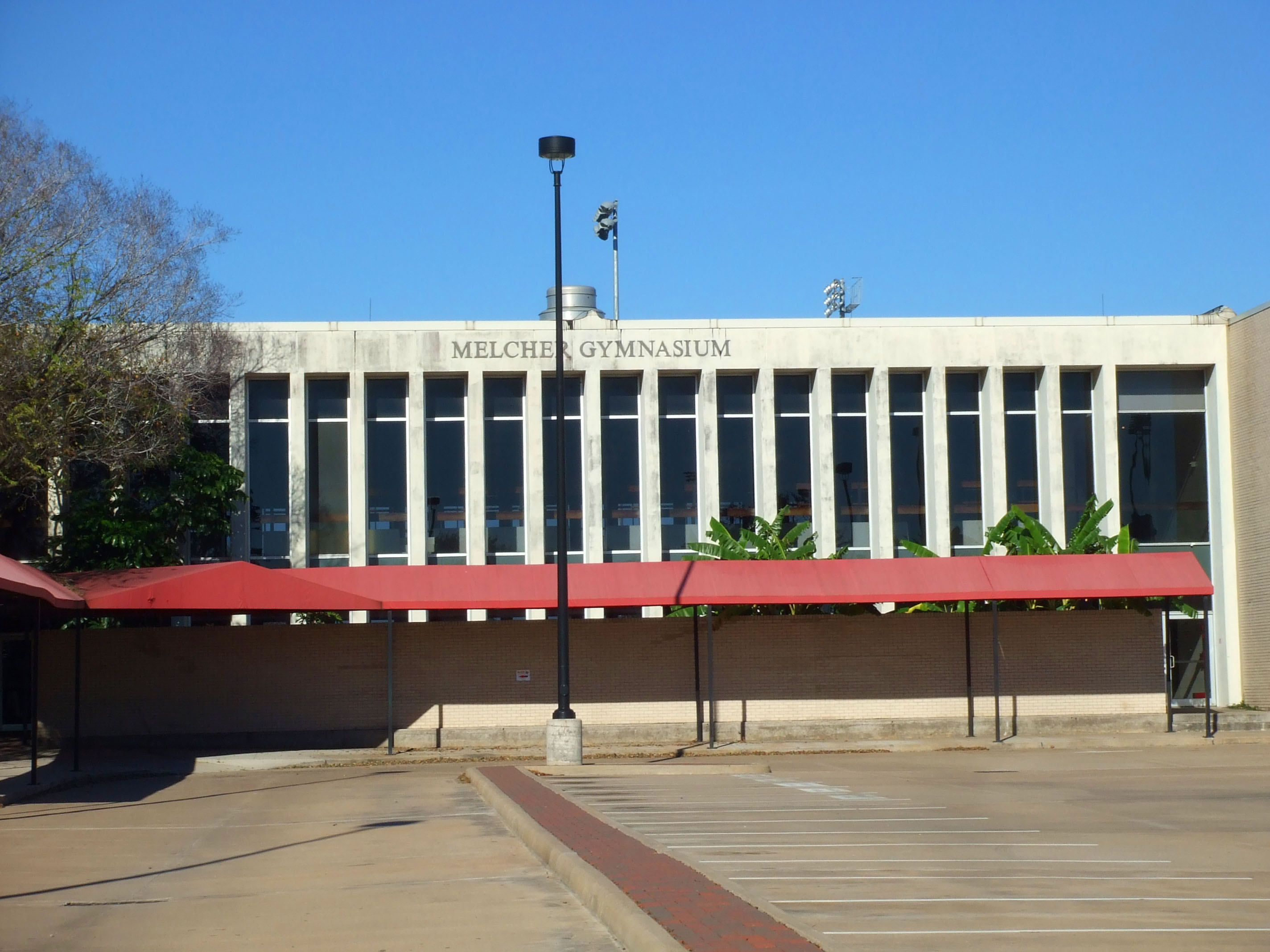 Melcher Gymnasium at the University of Houston - it houses the offices of the University of Houston Charter School